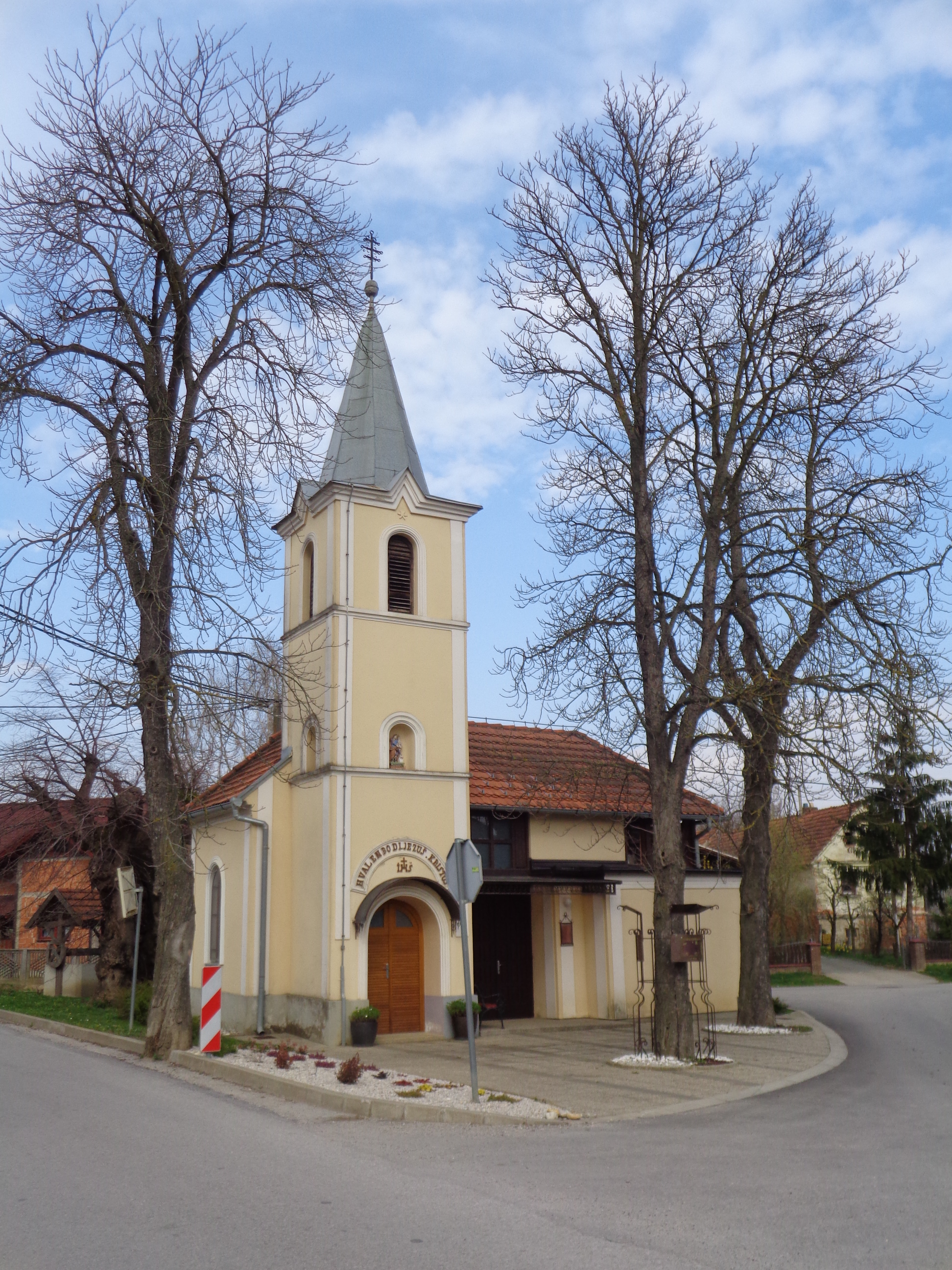 Slakovec (Međimurje County, Croatia) - church